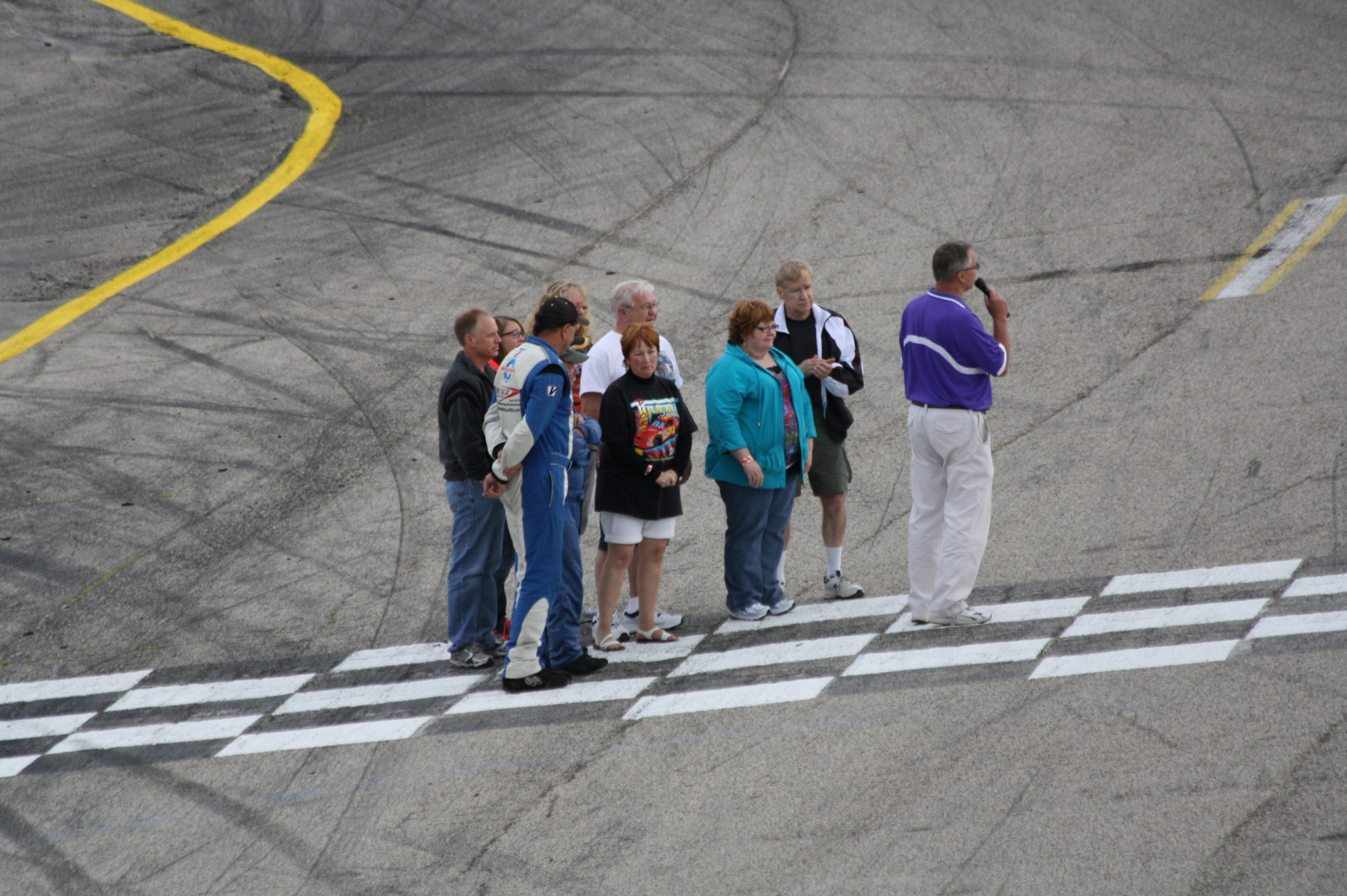 A memorial service for NASCAR driver Dick Trickle with his family along with former NASCAR driver Rich Bickle (blue driver's suit) at the 2013 Slinger Nationals. Trickle was the event's ceremonial grand marshal in previous years.